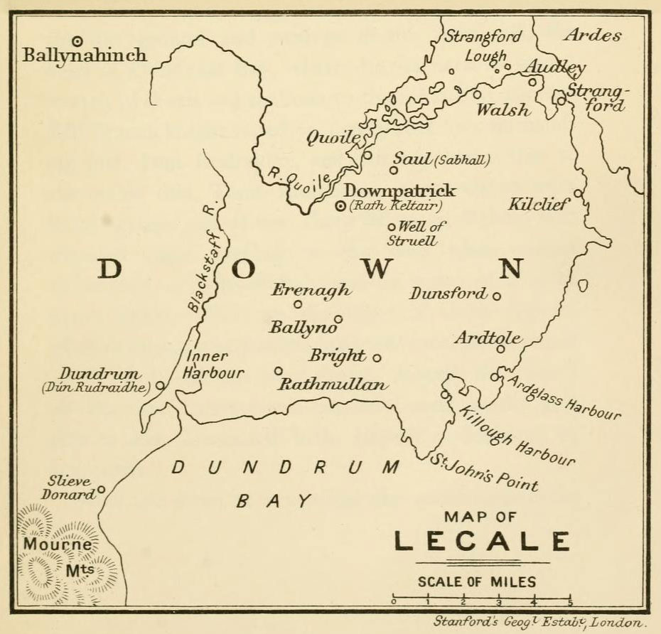 Historic map of the Lecale peninsula, County Down, Ireland (modern-day Northern Ireland).